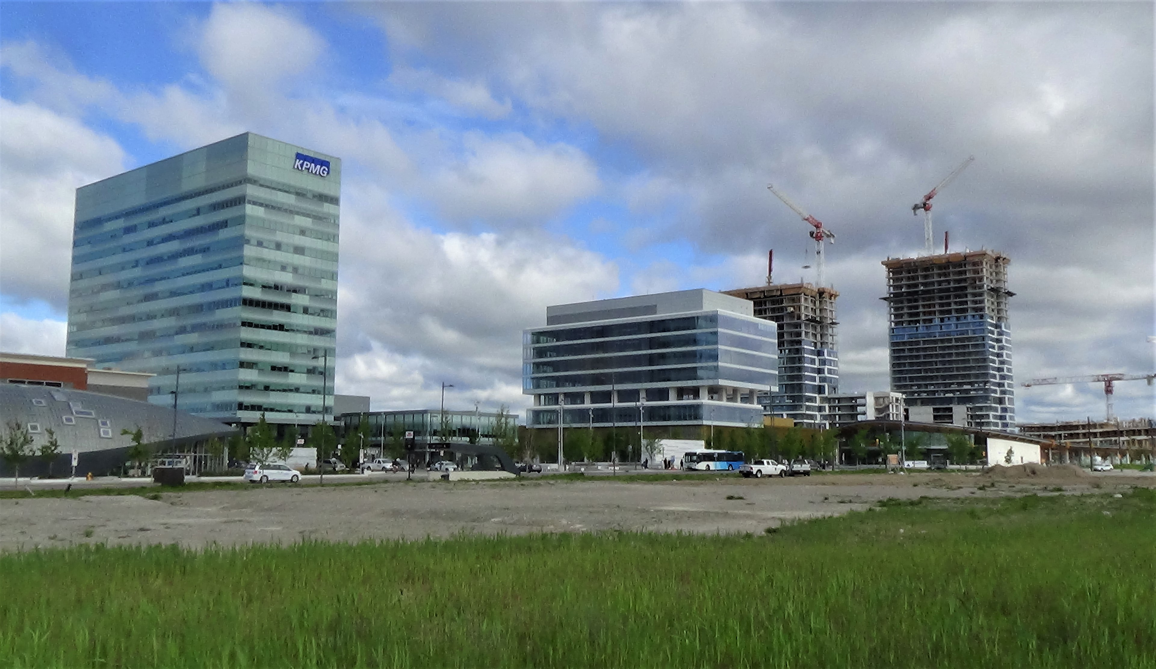 Skyline of Vaughan Metro Centre in 2019.jpg